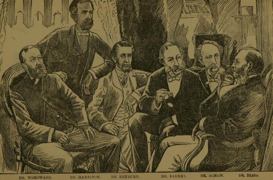 Illustration related to Garfield/Guiteau